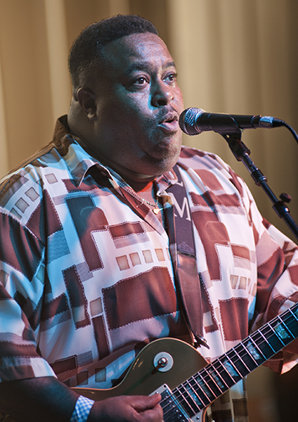 Larry McCray performing at the 2011 Monterey Blues Festival